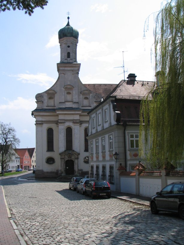 Seminary Church in Neuburg an der Donau